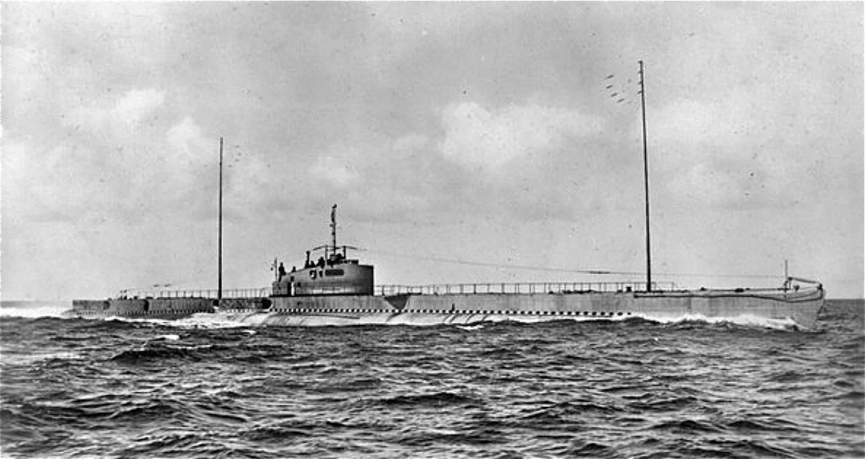 French Submarine Prométhée, sunk near Cherbourg, July 7th, 1932.